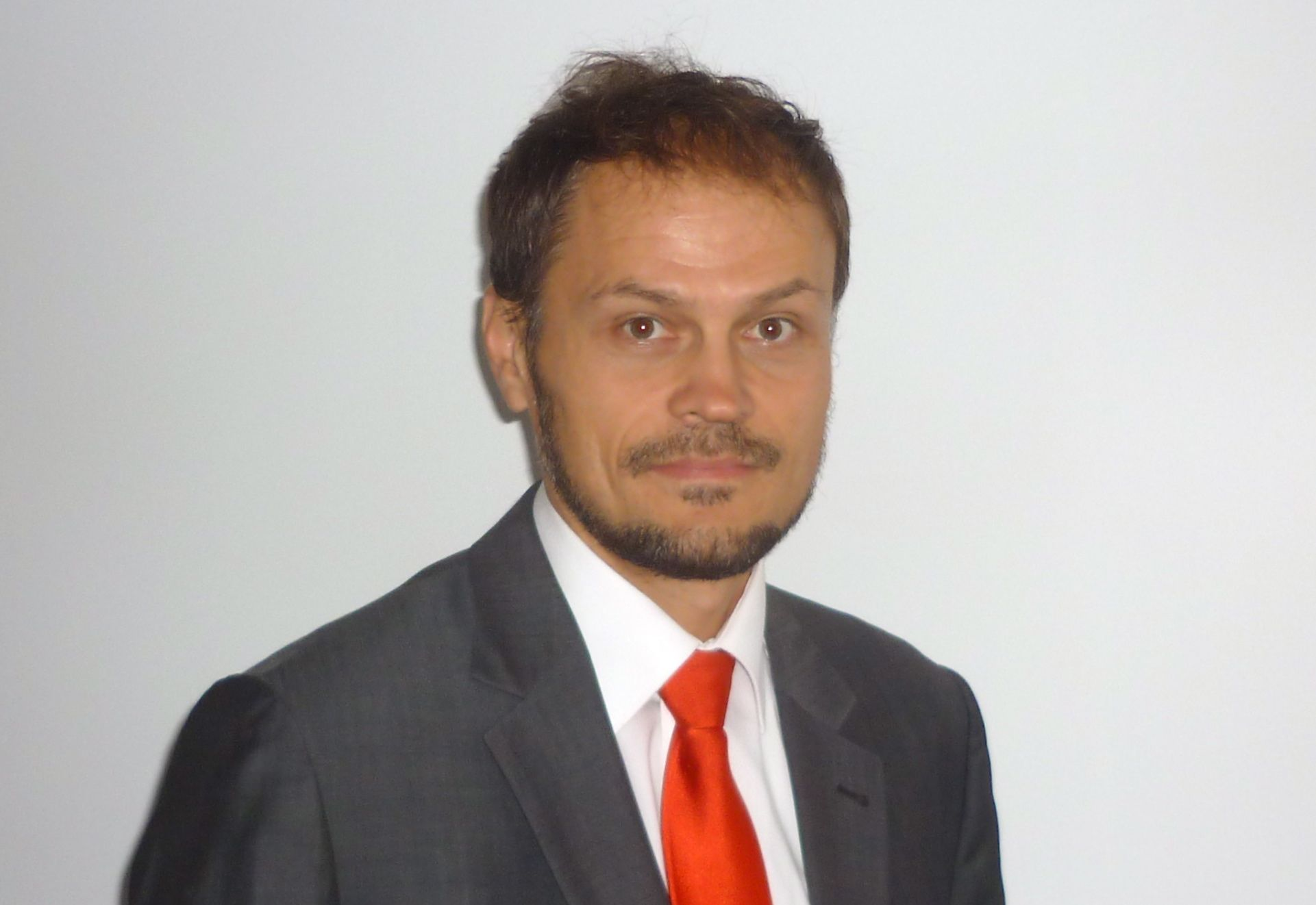 Sebastien FATH, French Scholar working in Paris, specialized on the History and Sociology of Protestantism (including Evangelicalism, Pentecostals, new immigrant Churches)